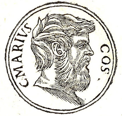 Gaius Marius Minor was the son of the Gaius Marius who was seven times consul and a famous military commander.